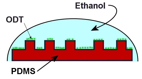 This graphic created by Wesley Allen; created May 5, 2004 [1]